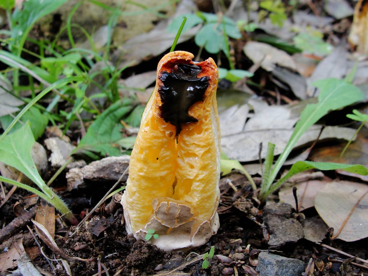 Clathrus bicolumnatus Image location: Tsukuba Botanical Garden, Tsukuba, Japan Recognized by sight: reported from Japan, Hawaii and California Used references: For more information about this, see the observation page at Mushroom Observer.